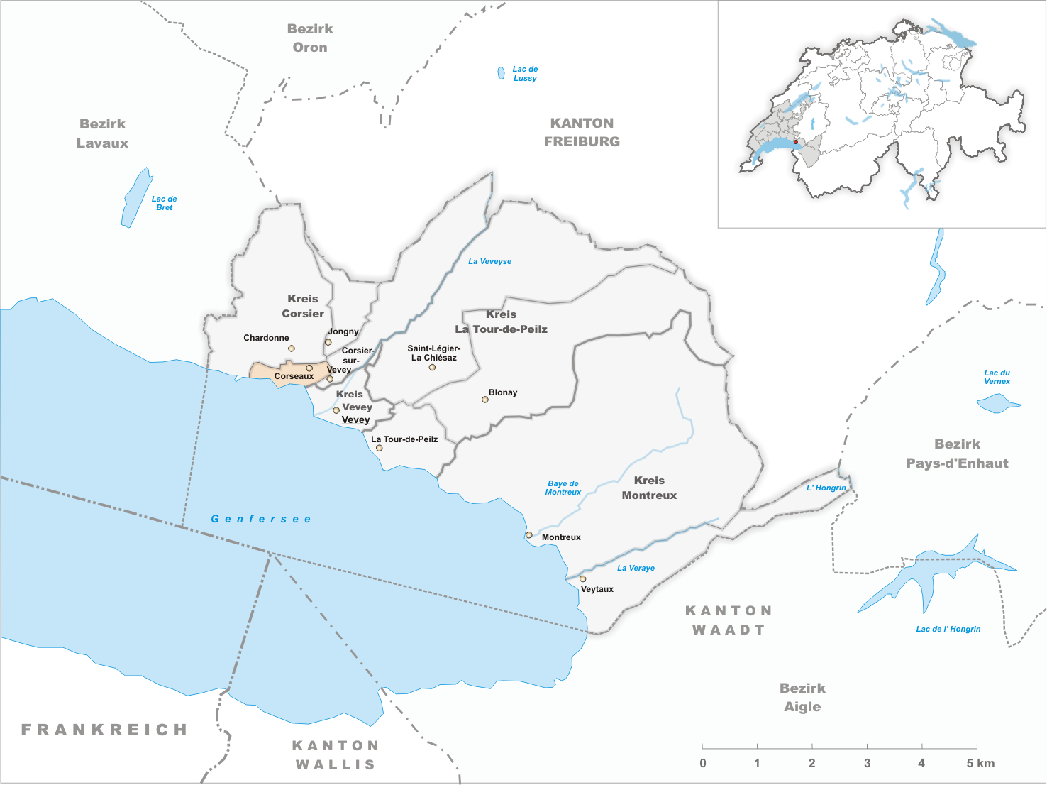 Municipality Corseaux